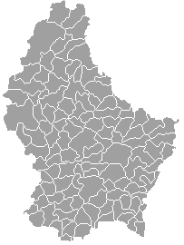 Map of communes of Luxembourg after mergers of 2006-01-01